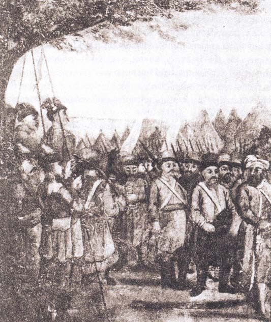 Hetman:s Army of Cossack Hetmanate.